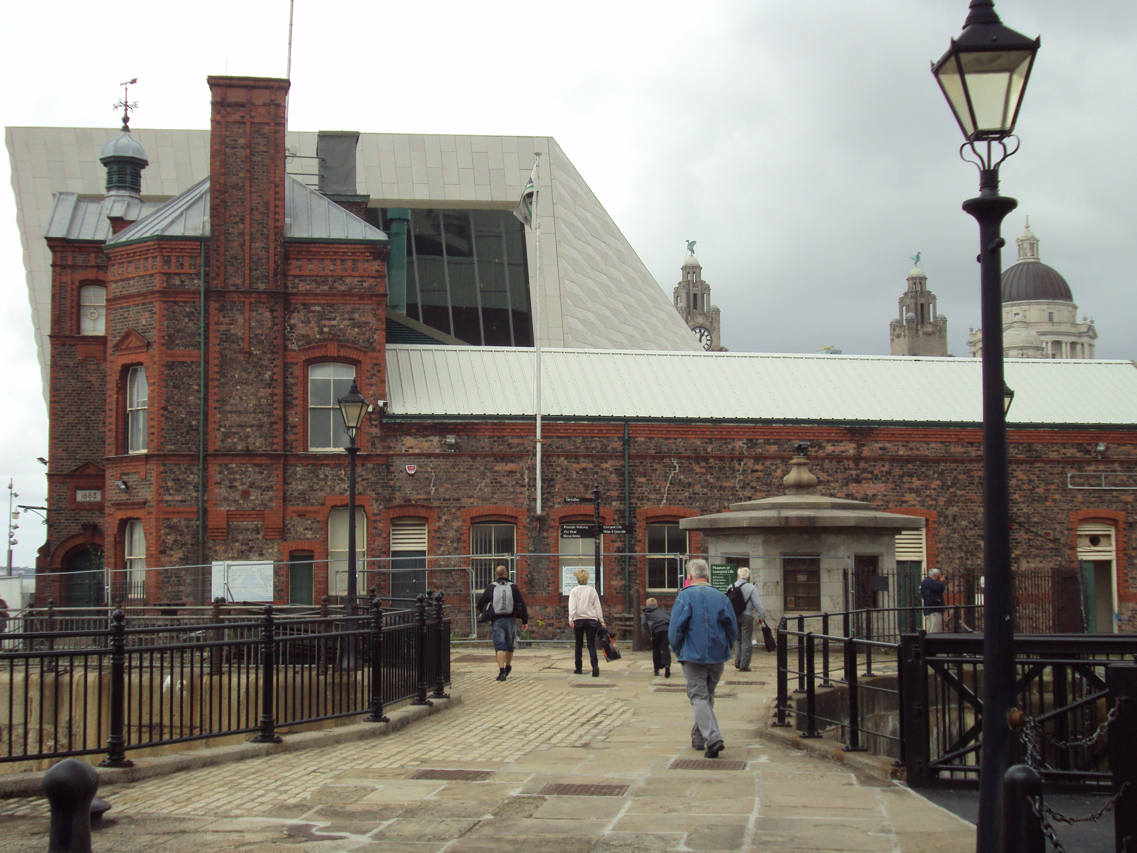 Museum of Liverpool Life, Mann Island, Liverpool. Now closed and replaced with the Museum of Liverpool, which can be seen in the background.